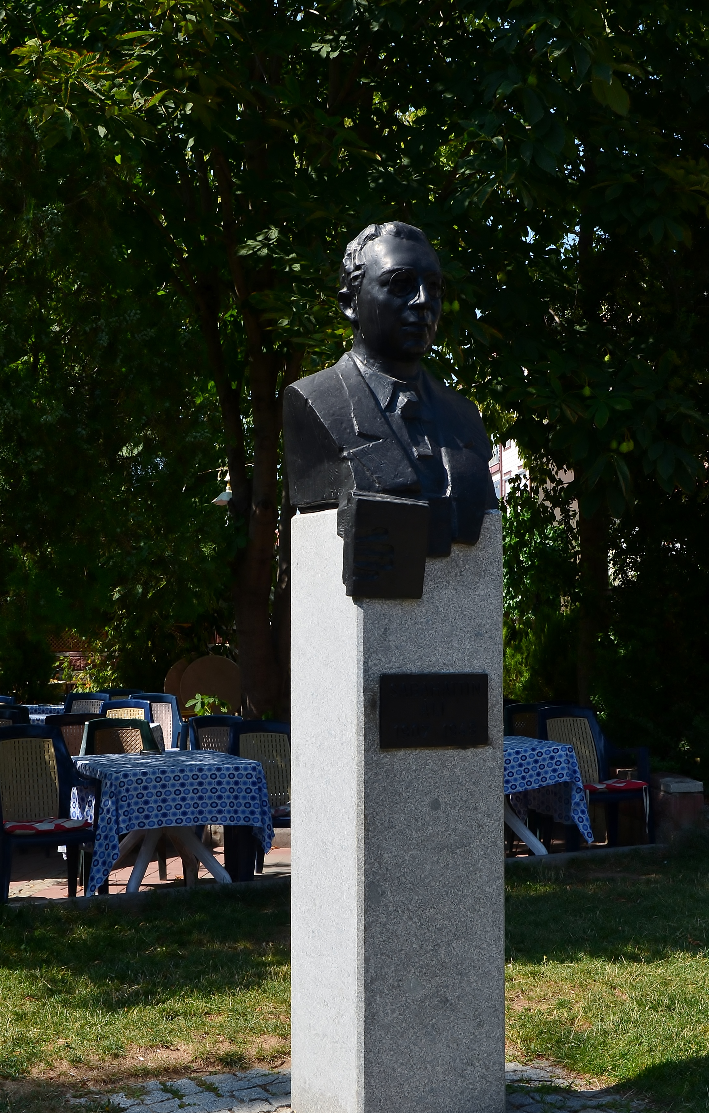 Bust of Sabahattin Ali in Kırklareli, Turkey